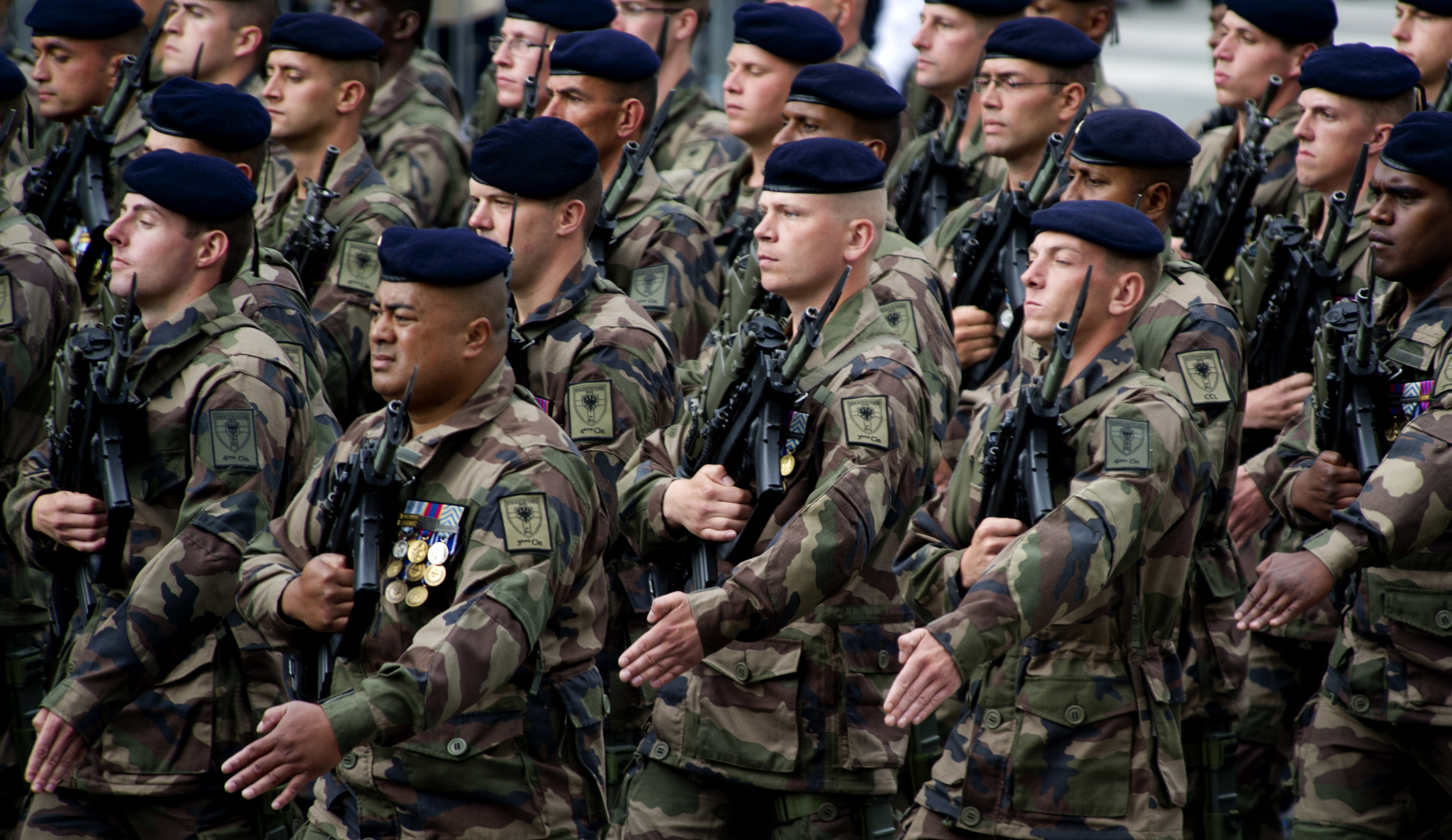 PARIS -- Soldiers from France’s First Infantry Regiment march down Camps del Elysee during the 2012, 14th of July parade in Paris. The 14th of July, known in English by Bastille Day, is the French equivalent of the American 4th of July. It commemorates the attack on the Bastille on July 14, 1789, which preceded the French revolution. (U.S. Air Force photo/Staff Sgt. Benjamin Wilson)